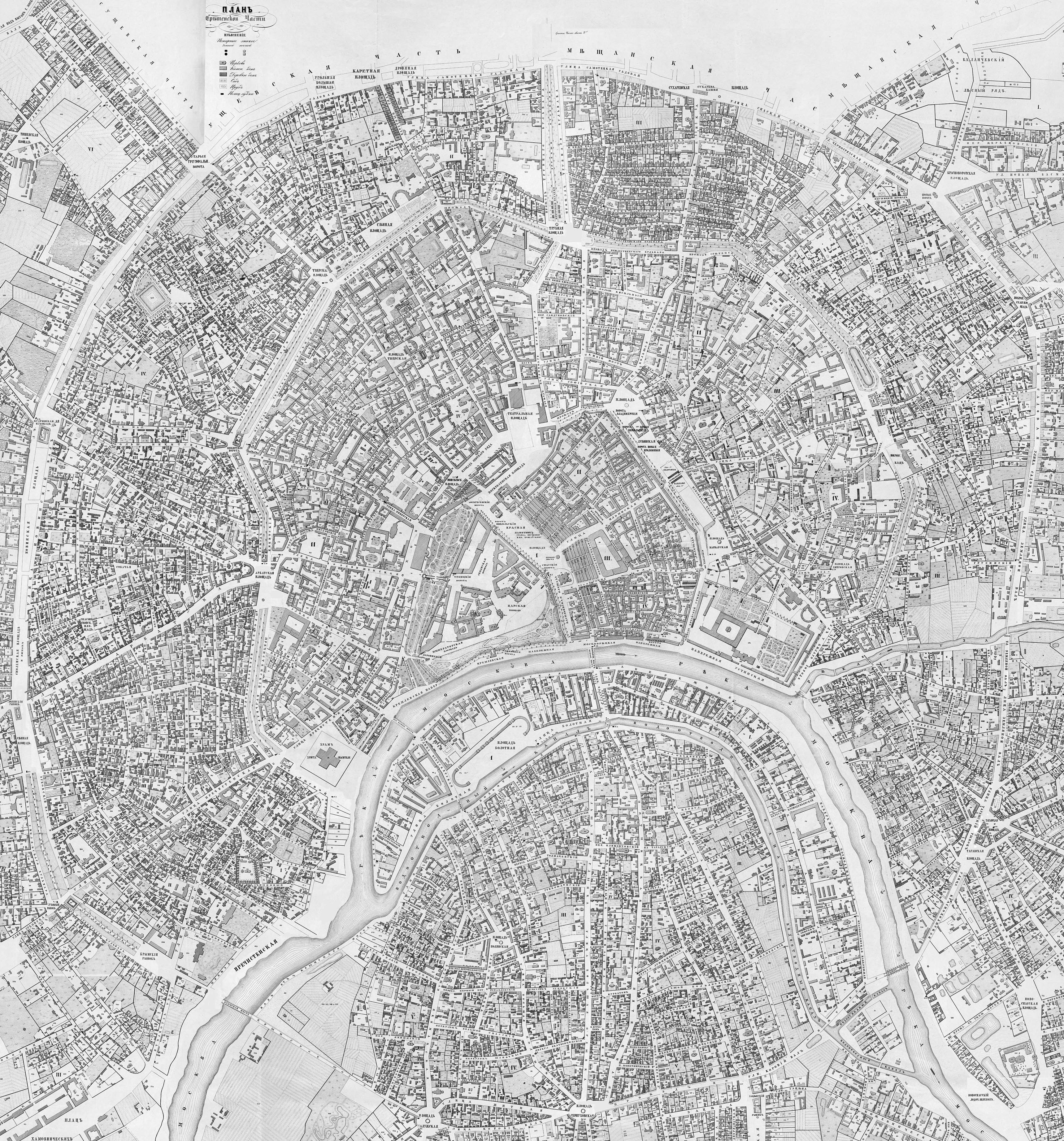 Excerpt from Khotev's Atlas of Moscow: Garden Ring area.